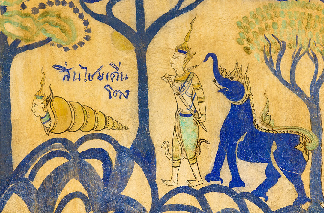 Sinxay and his two brothers, Sangthong and Siho - Mural Detail Wat Sanuan Wari. One of the most used images of Sinxay, iconically drawn.